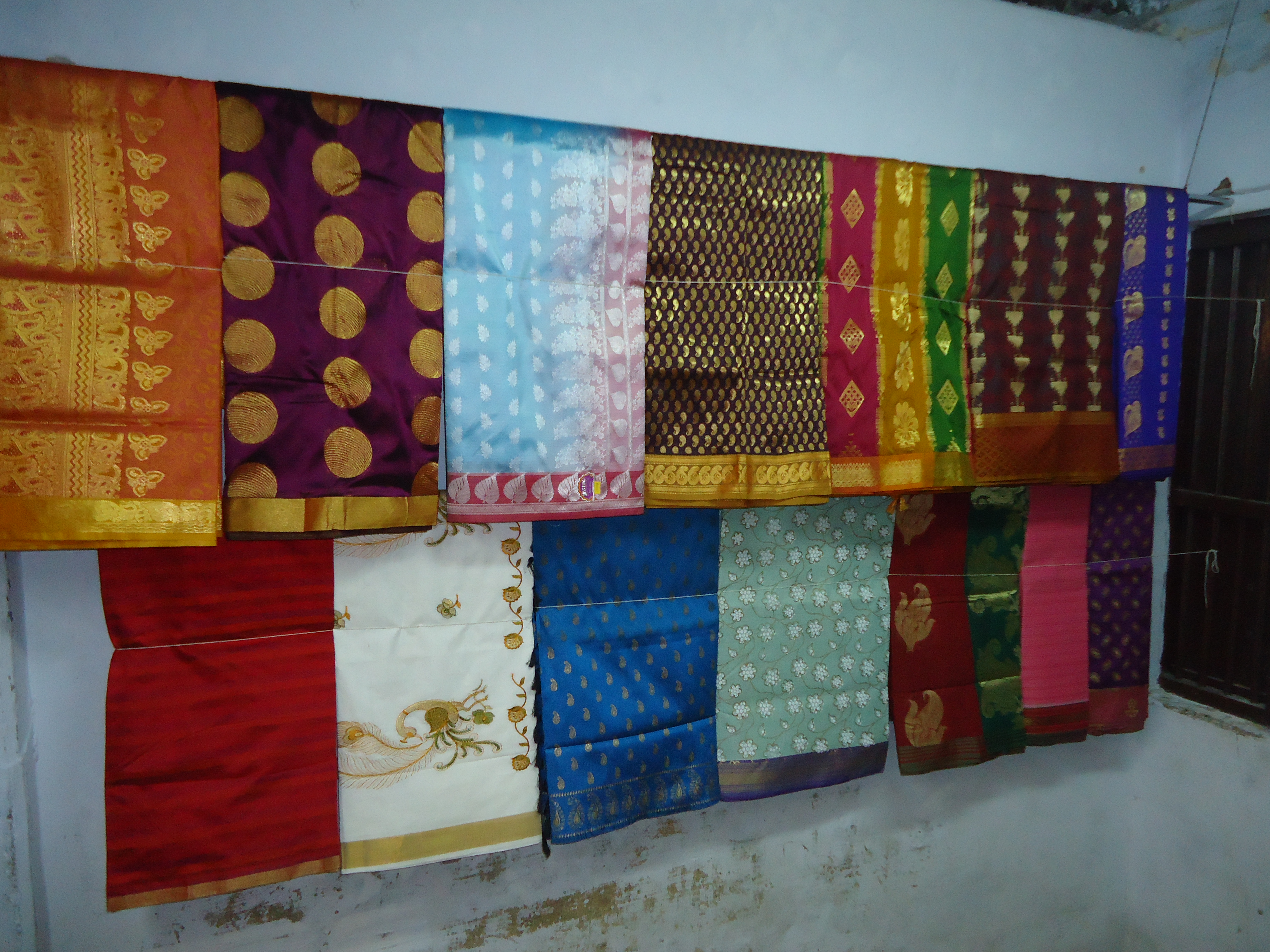 Silk sarees for sale at Kanchipuram